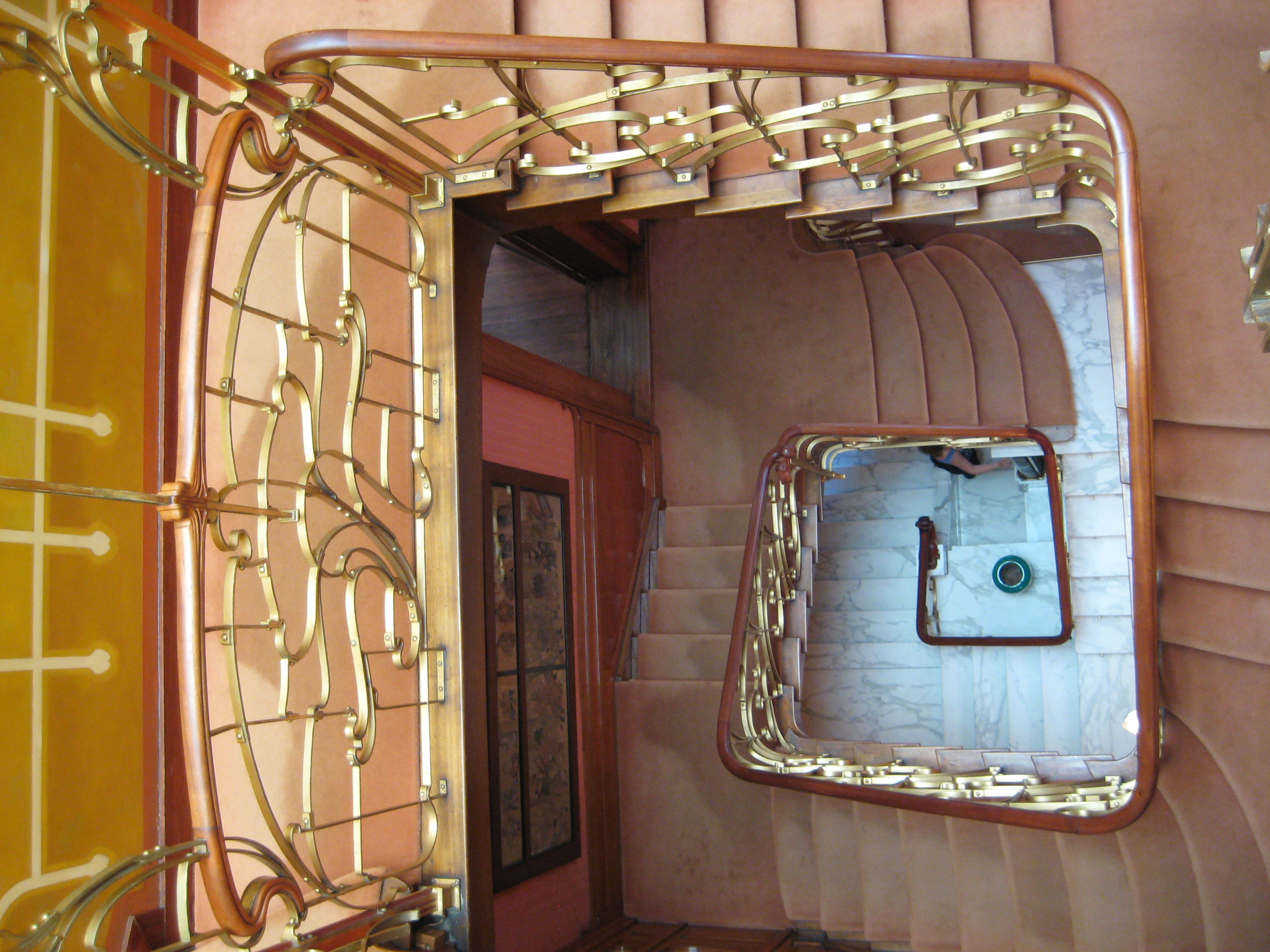 Horta Museum, Brussels.